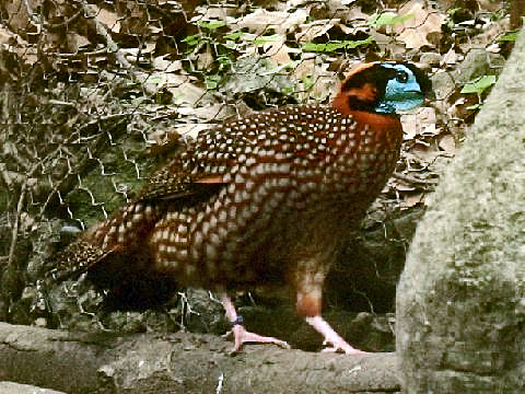 Temminck's Tragopan